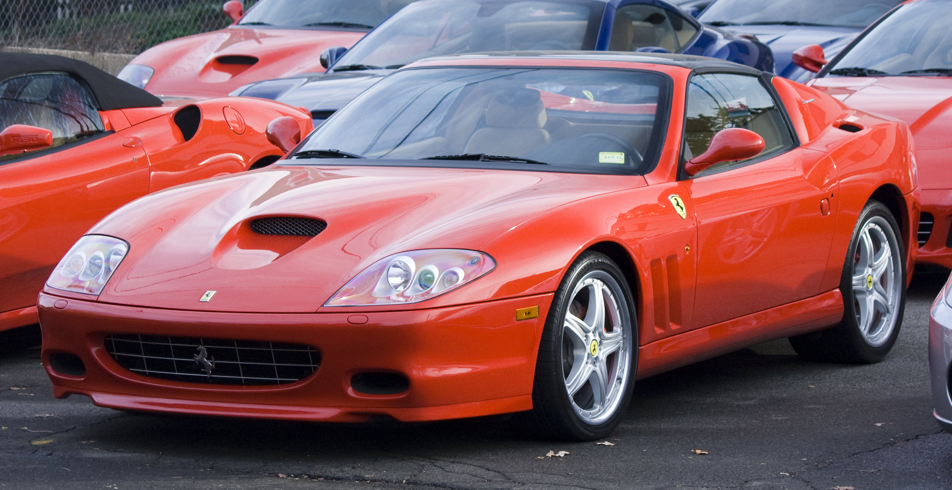 Ferrari 575 Superamerica, surrounded by other Ferraris